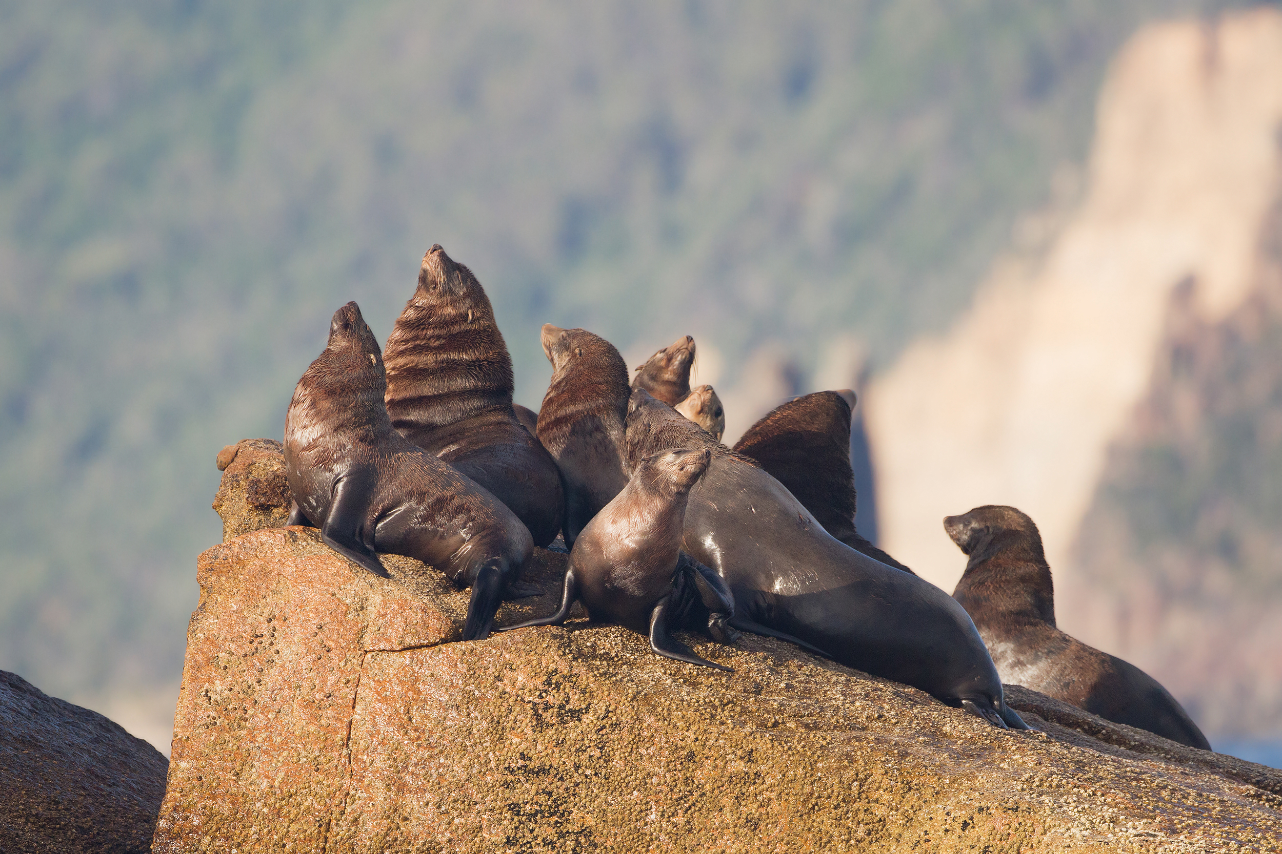 Brown fur seals (Arctocephalus pusillus) basking in the morning sun, Hippolyte Rocks off the east coast of Tasmania, Australia